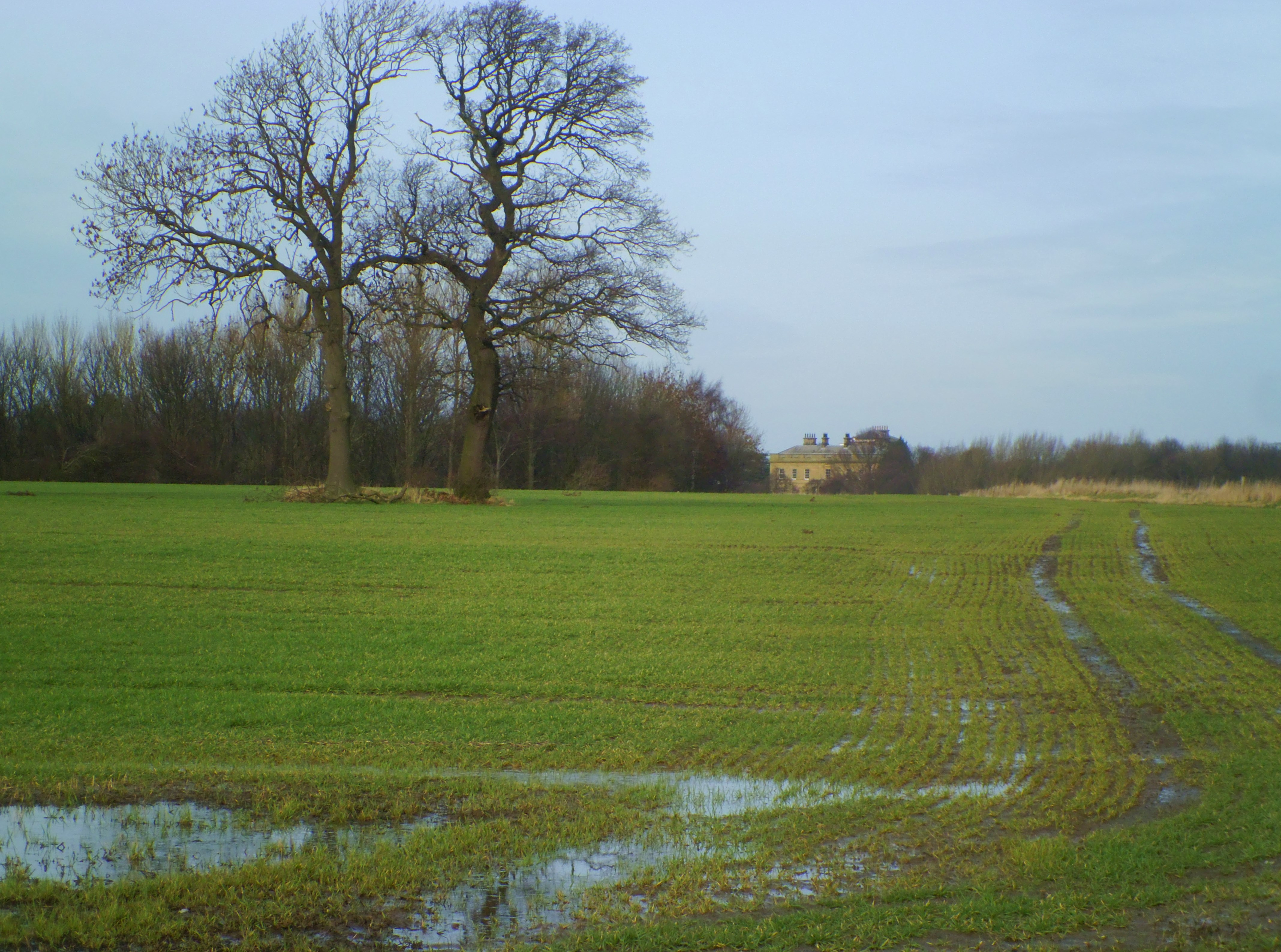 Winter field at Sexhow